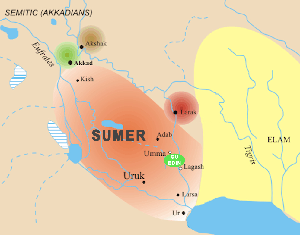 Gu-Edin